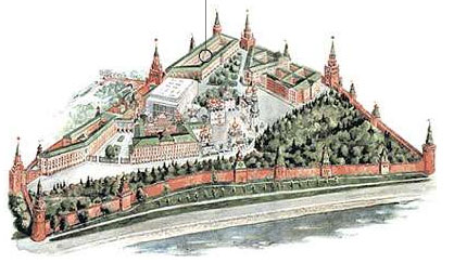 Overview map of the Moscow Kremlin. Location of The Arsenal marked.